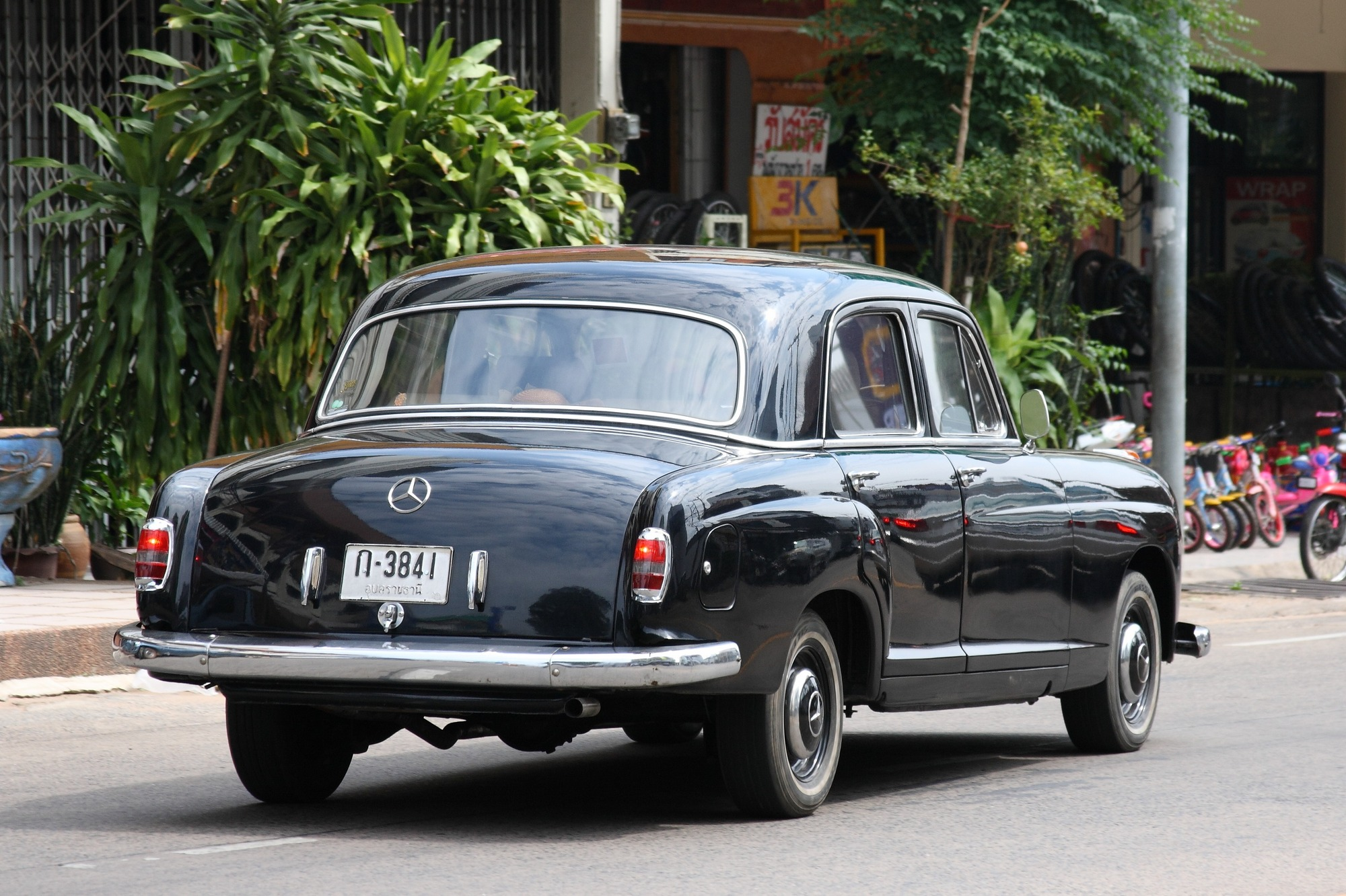 Mercedes-Benz W180 in Ubon Ratchathani, Thailand